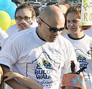 San Antonio native and two-time WBC Super Featherweight World Champion, Jesse James Leija, this years' Honorary Buddy, led the walk. More than 4,000 participants walked the one-mile loop at the BG Johnson track at Fort Sam Houston to show their support and bring awareness to Down syndrome. (The extract from an original text)